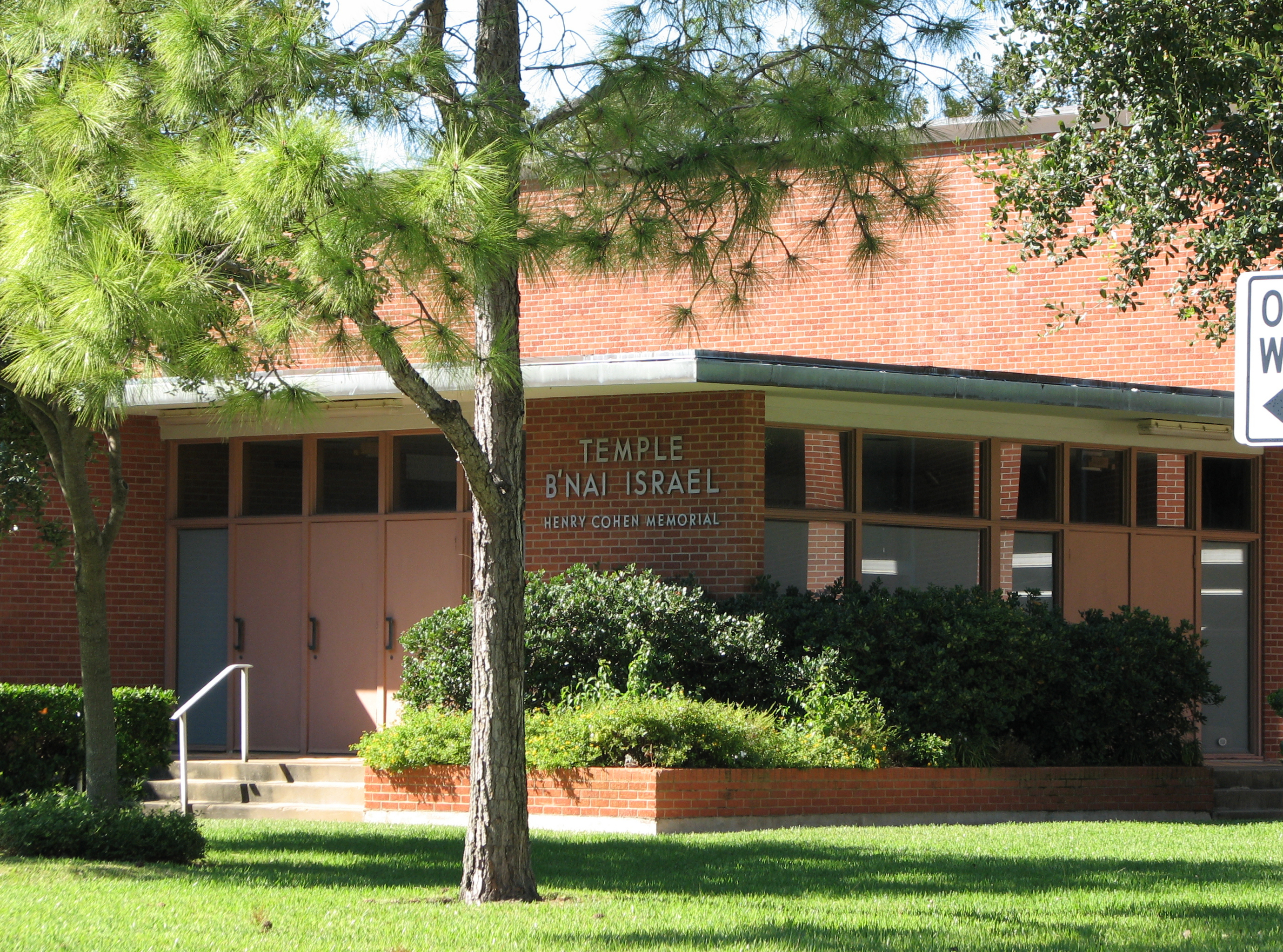 Present Congregation B'nai Israel Temple, c. 1952 Photo by myself